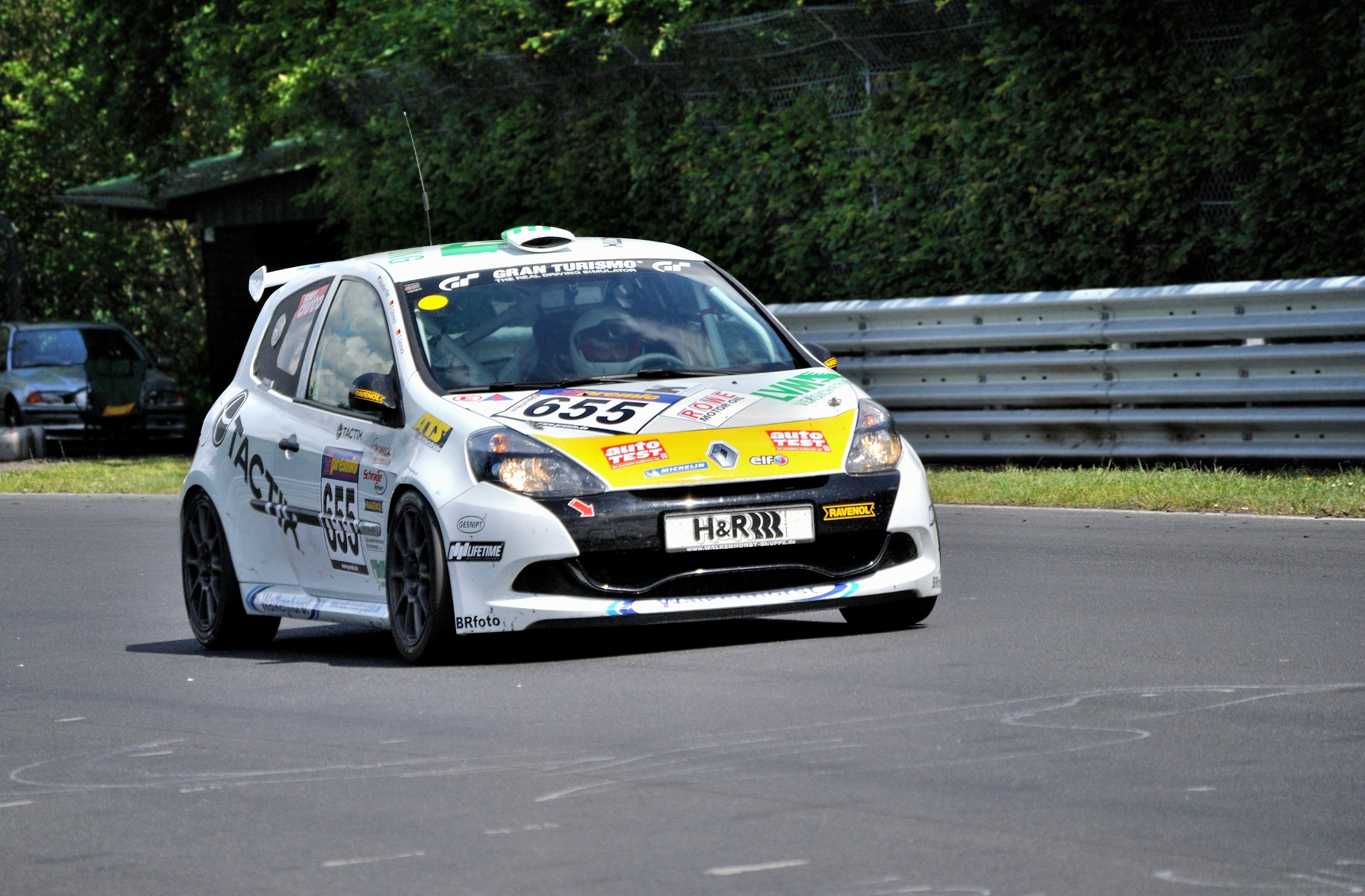 Nürburgring (District of Ahrweiler, Rhineland-Palatinate, Germany) – Antoniusbuche – Renault Clio CupThis photograph was taken with a Nikon D3000